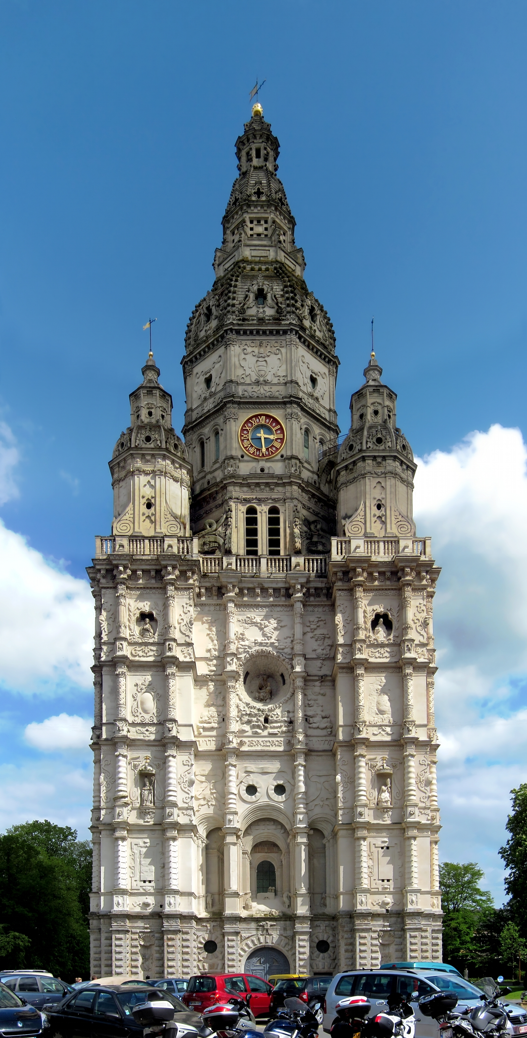 Tower of the old abbey church of Saint-Amand-les-Eaux, France, built from 1626 to 1640.